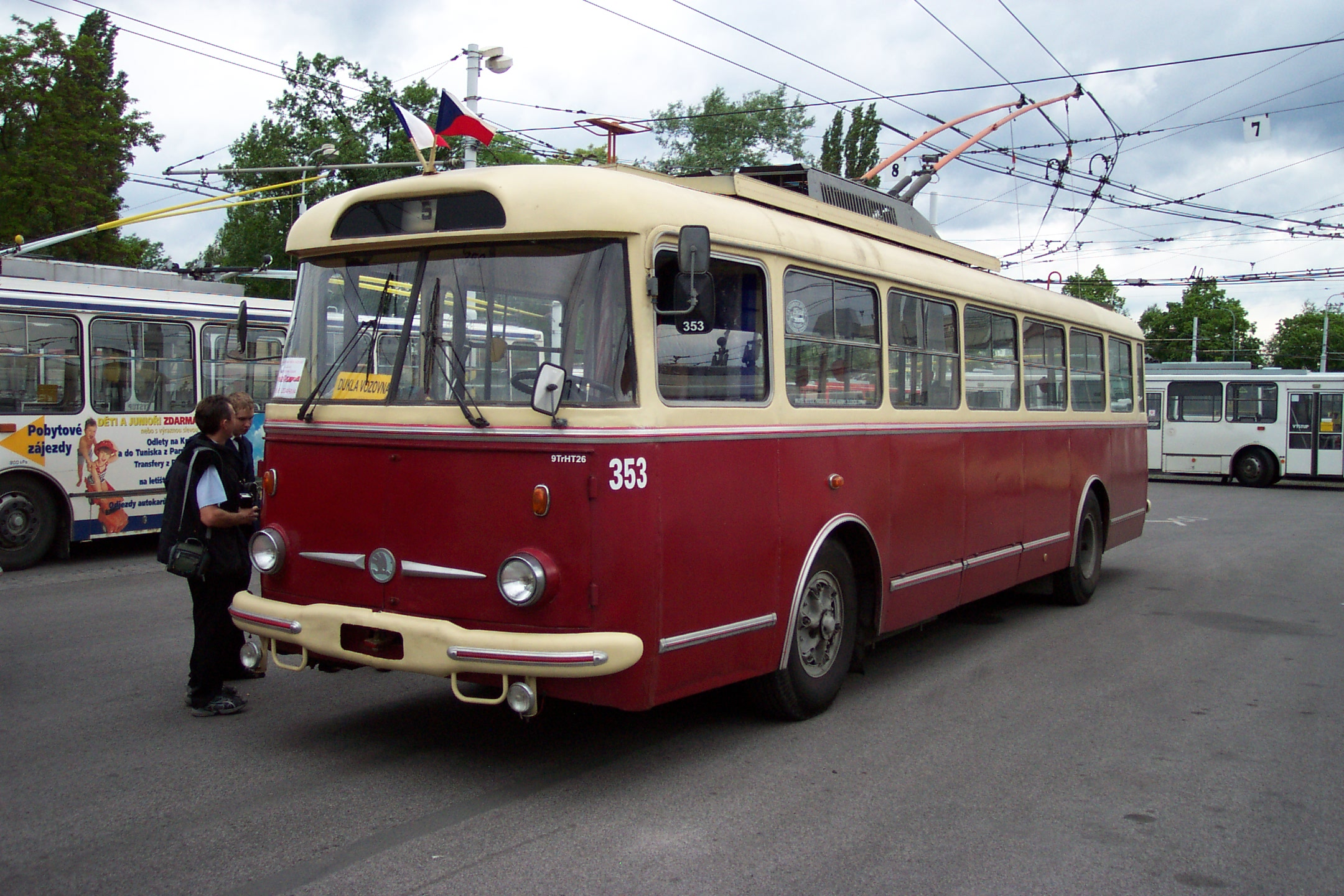 Czech trolleybus Škoda 9TrHT26 at the 55 years of trolleybus transport in Pardubice